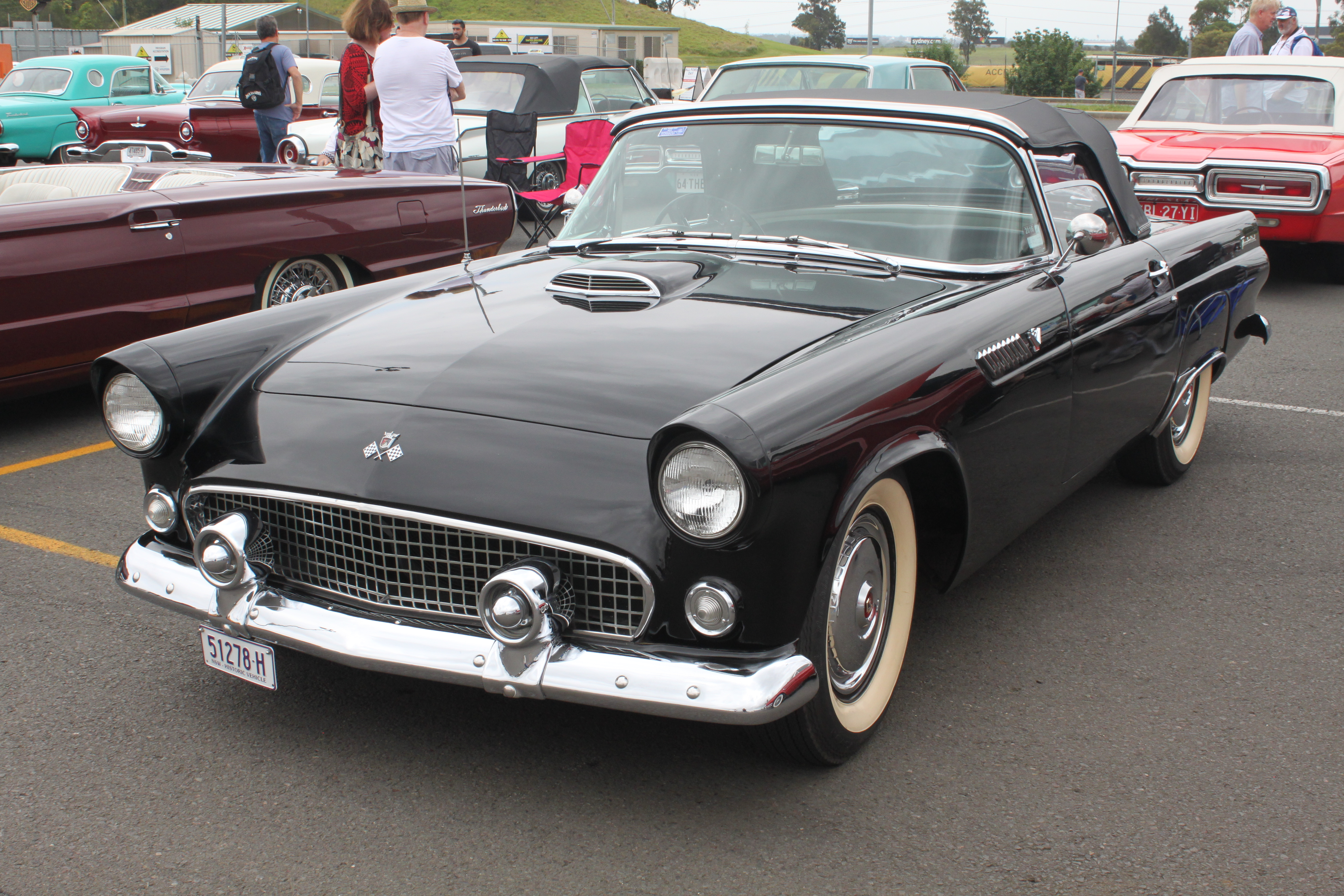 All Ford Day, Eastern Creek NSW, November 2015